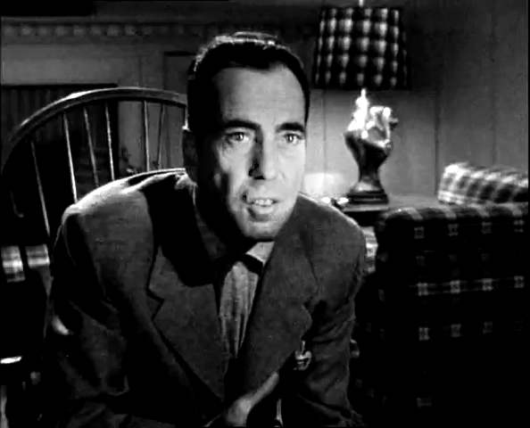 Screenshot from trailer for the movie In a Lonely Place (1950), featuring stars Gloria Grahame and Humphrey Bogart. Humphrey Bogart as Dixon Steele.